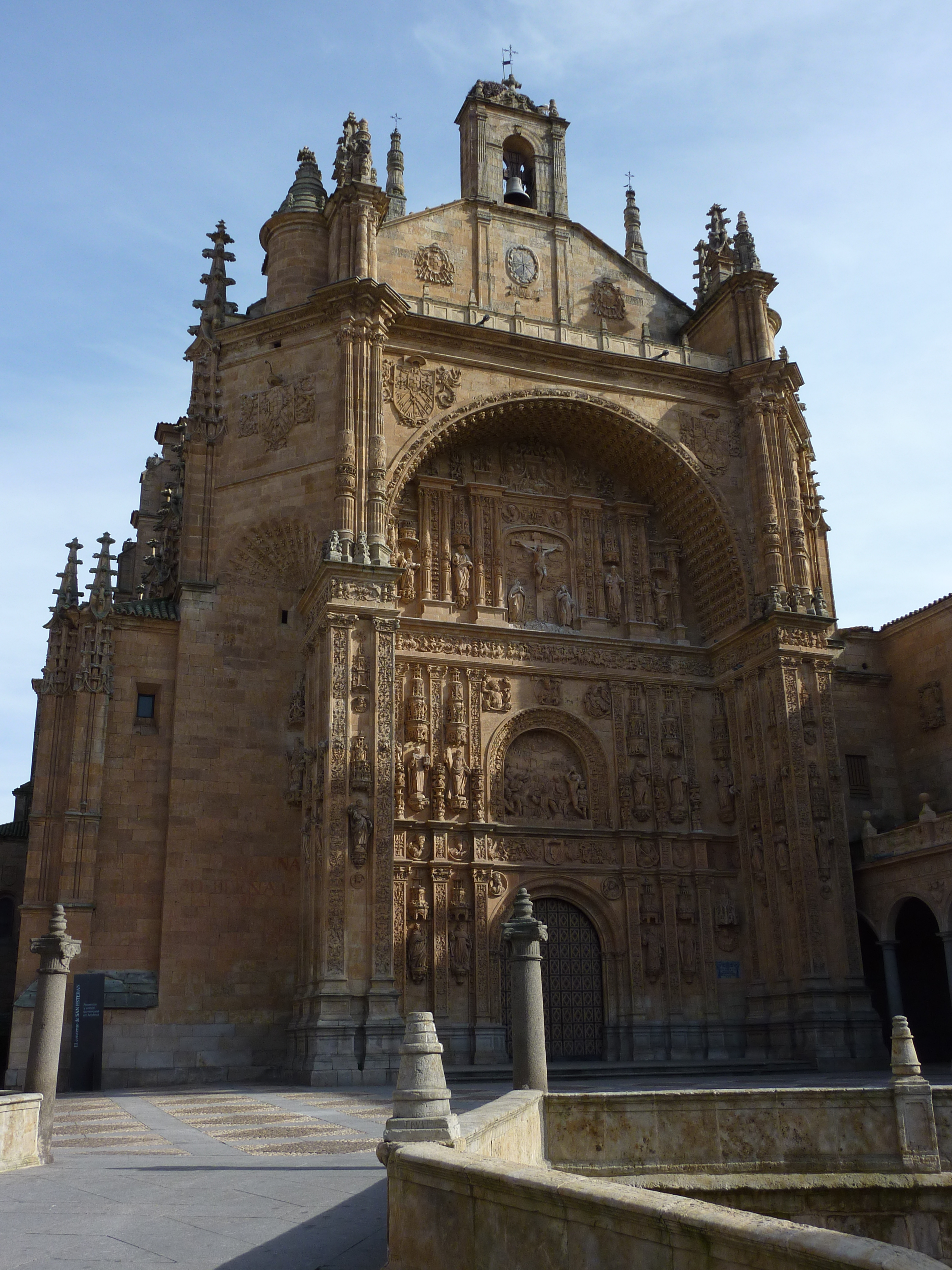 Church of the monastery of San Esteban in Salamanca